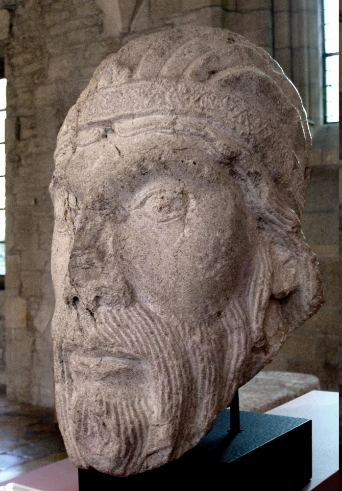 architectural decoration, fragment, head of St. Benignus of Dijon / half left material: stone size: ca. 40 cm origin: Early Romanesque, Burgundy exhibition: archaeological museum of Dijon, dormitory of the former Benedictine abbey St. Bénigne patron saint of the monastery earliest historical image of the Saint